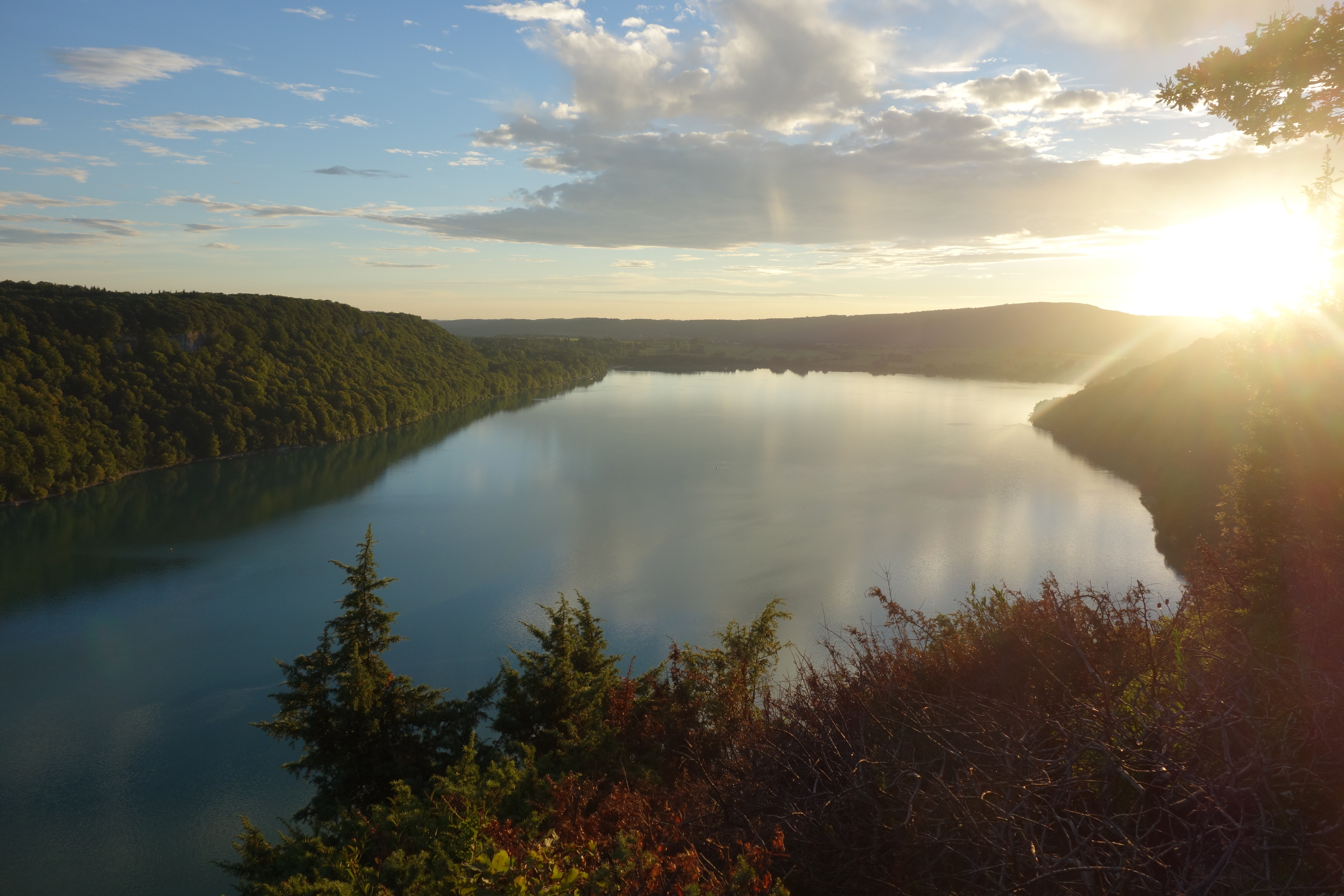 View on Lac de Chalain from Fontenu's viewpoint